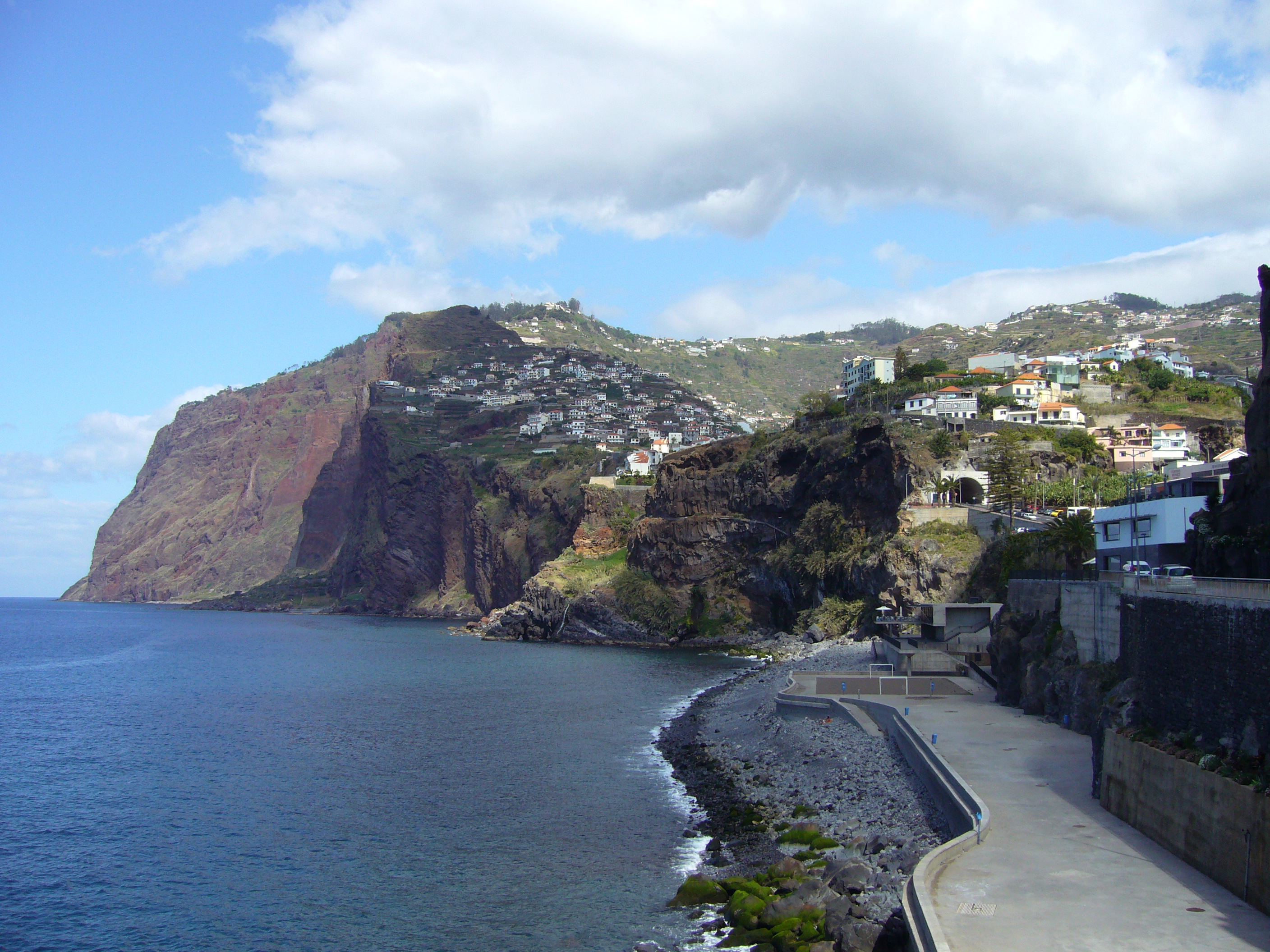 Cliff seen from Camara de Lobos